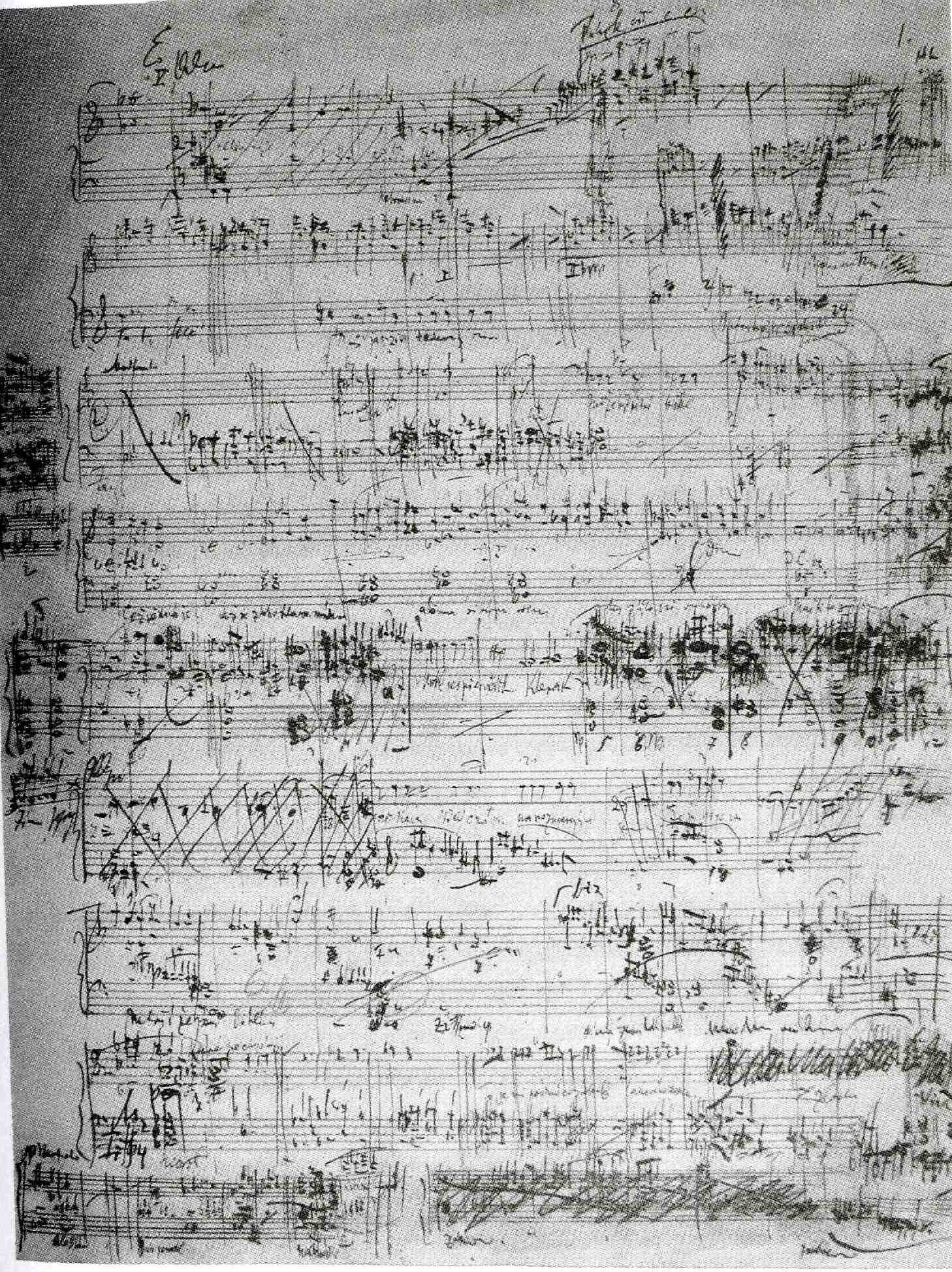 Jenůfa-the only well-preserved page of the score